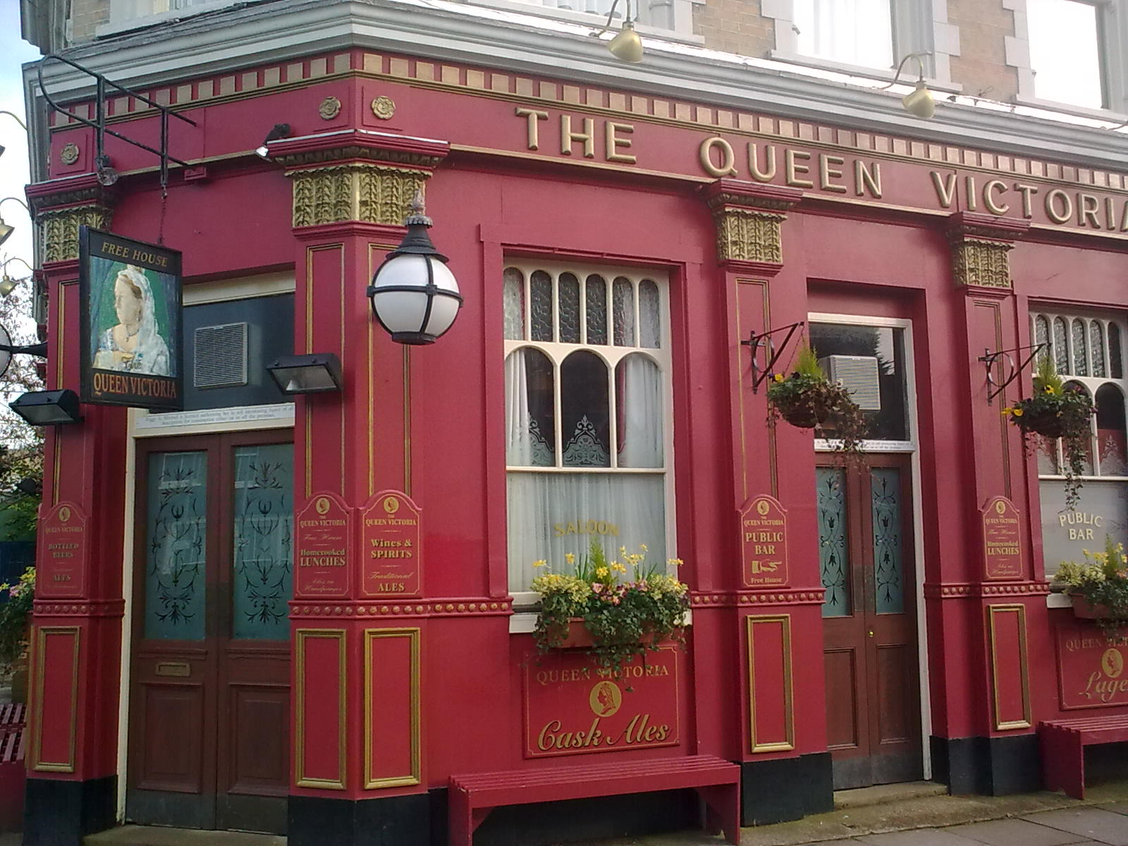 The exterior of The Queen Victoria pub set.